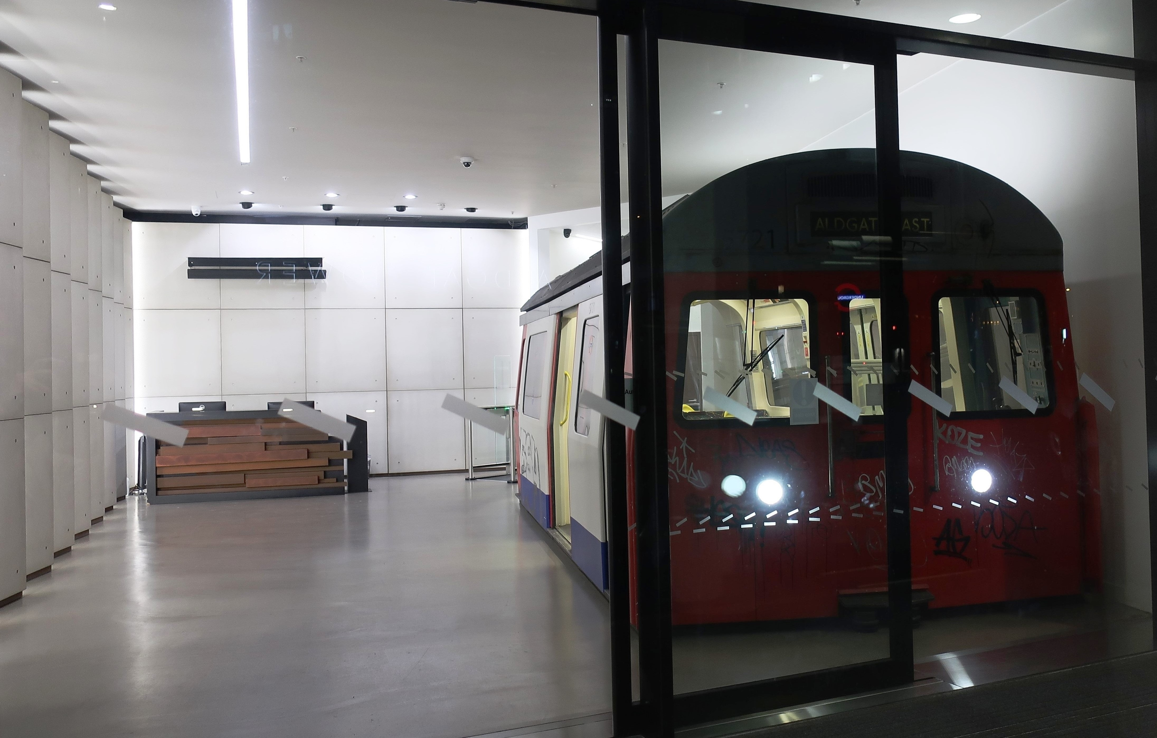 Entrance lobby to the Relay Building, London E1, incorporating a section of a C Stock London Underground train, used as a seating area.